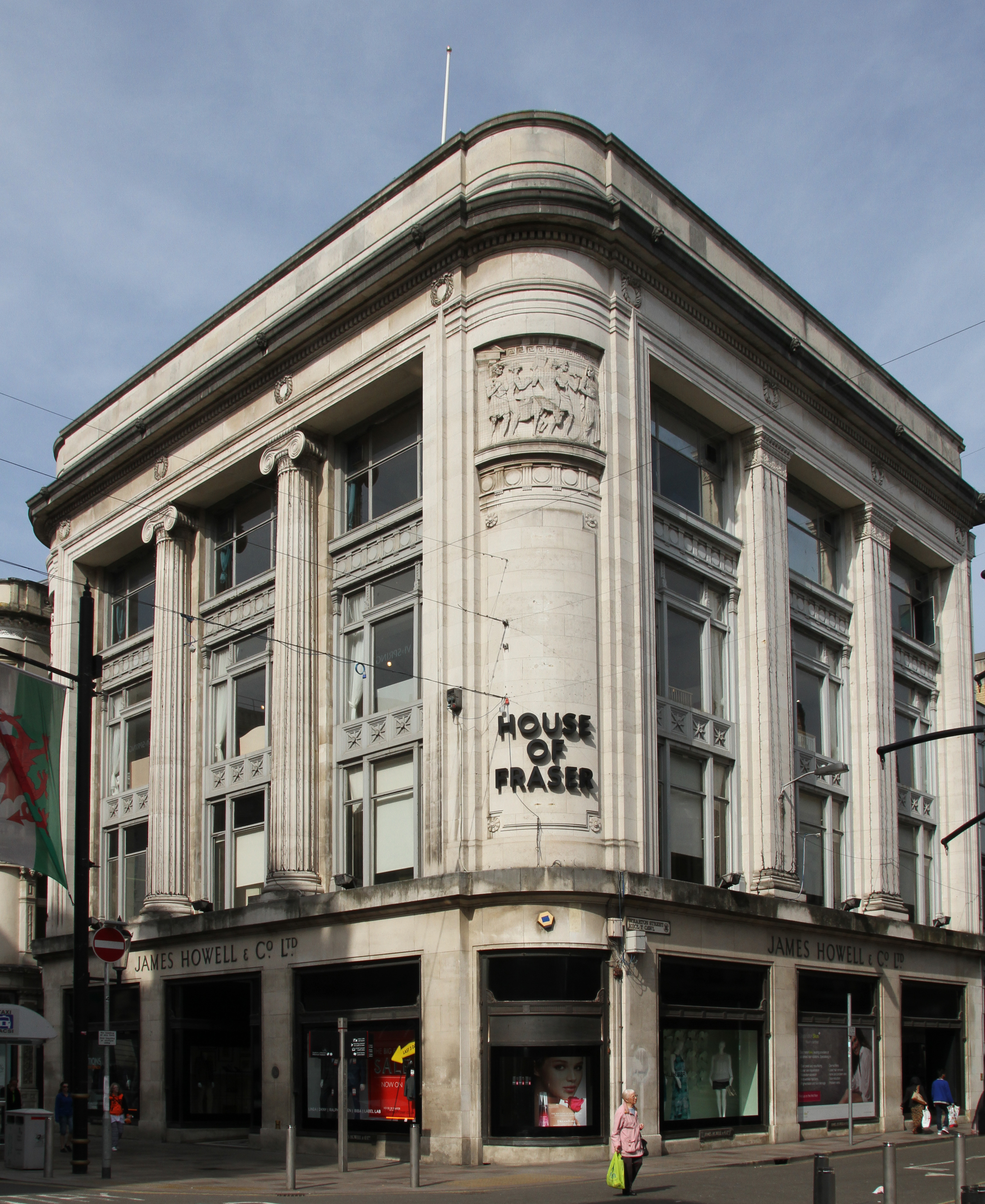 House of Fraser